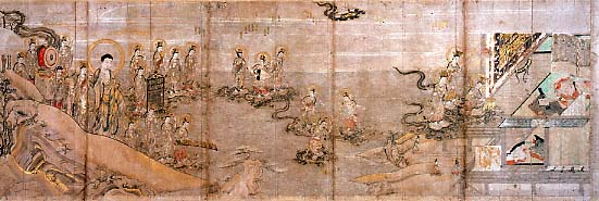 Taima Mandala engi (紙本著色当麻曼荼羅縁起, shihon chakushoku taima mandara engi). Part of one of two handscrolls (Emakimono), 51.5 cm x 796.7 cm and 51.5 cm x 689.8 cm. Color on paper. Located in the Kamakura Museum of National Treasures, Kamakura, Kanagawa. Owned by Kōmyō-ji, Kamakura, Kanagawa.